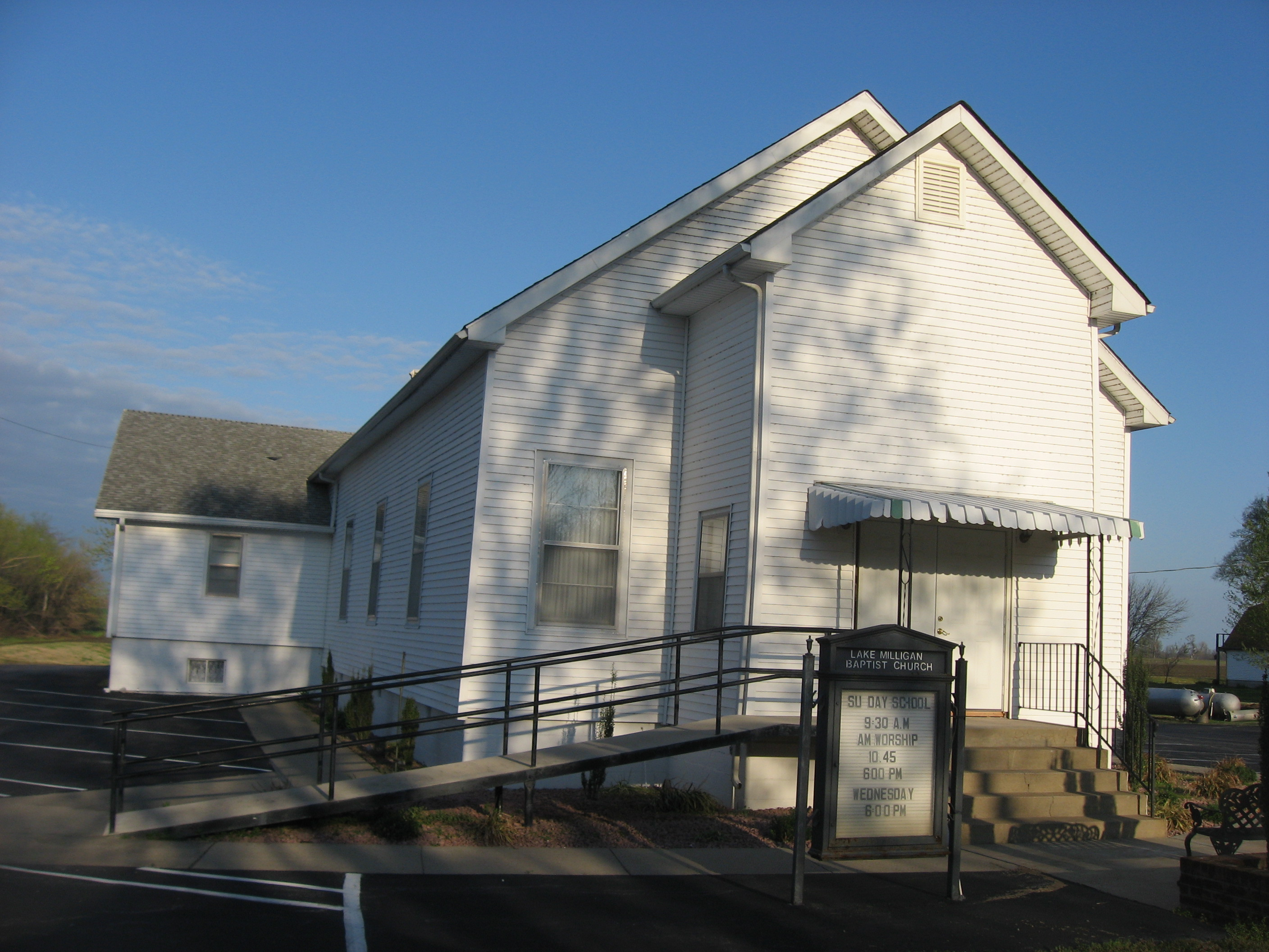 Front and southern side of the Lake Milligan Baptist Church, located at 24211 Miller City Road in Miller City, Illinois, United States.